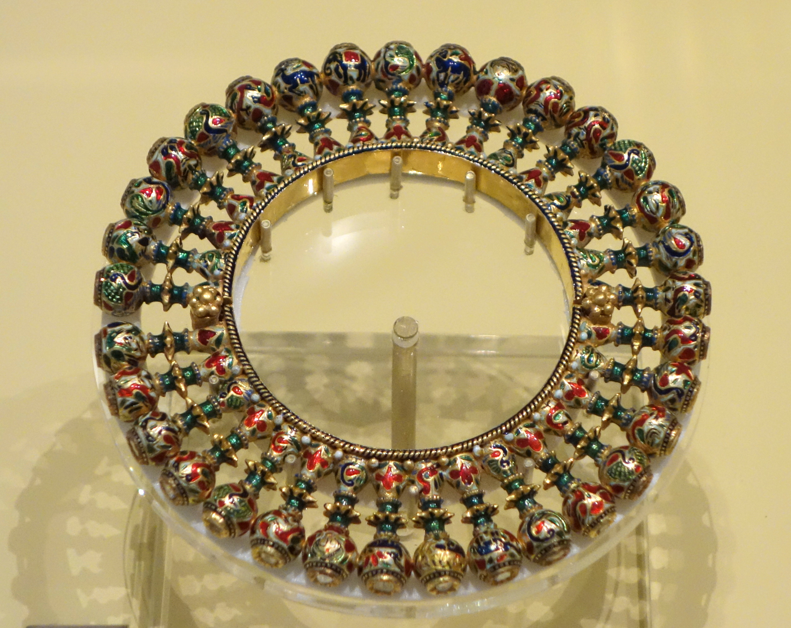 Exhibit in the Royal Ontario Museum, Toronto, Ontario, Canada. This work is old enough so that it is in the public domain.